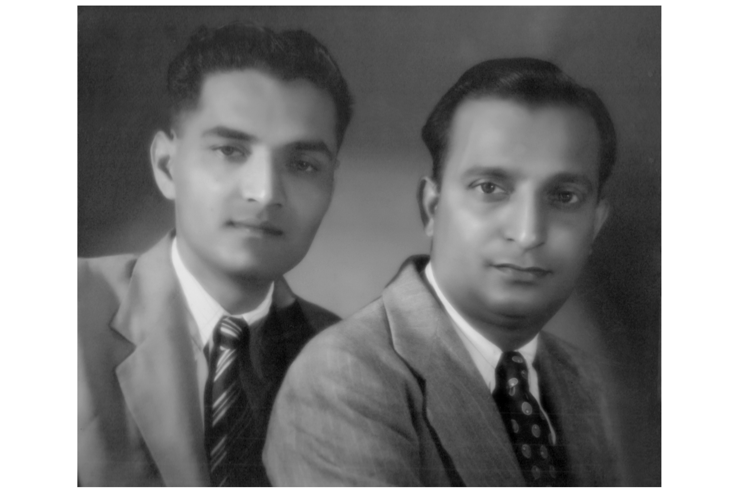 Vasantrao Ghatge with her friend and then business partner Mr. Jaykumar Patil